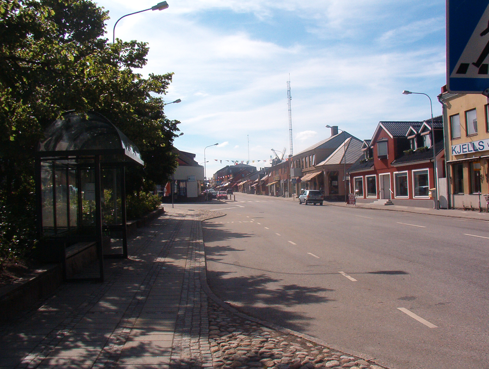 Third image of Sjöbo in Sweden Date as of upload